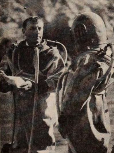 Director Maurice Tourneur getting ready to scout out some potential underwater shooting locations in preparation for filming the American drama film Deep Waters (1920), on page 75 of the May 15, 1920 Exhibitors Herald.